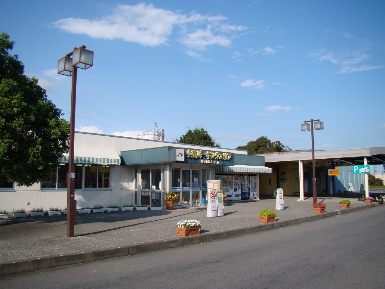 Tomei expressway Ogasa parking area(Tokyo side) Shizuoka Japan